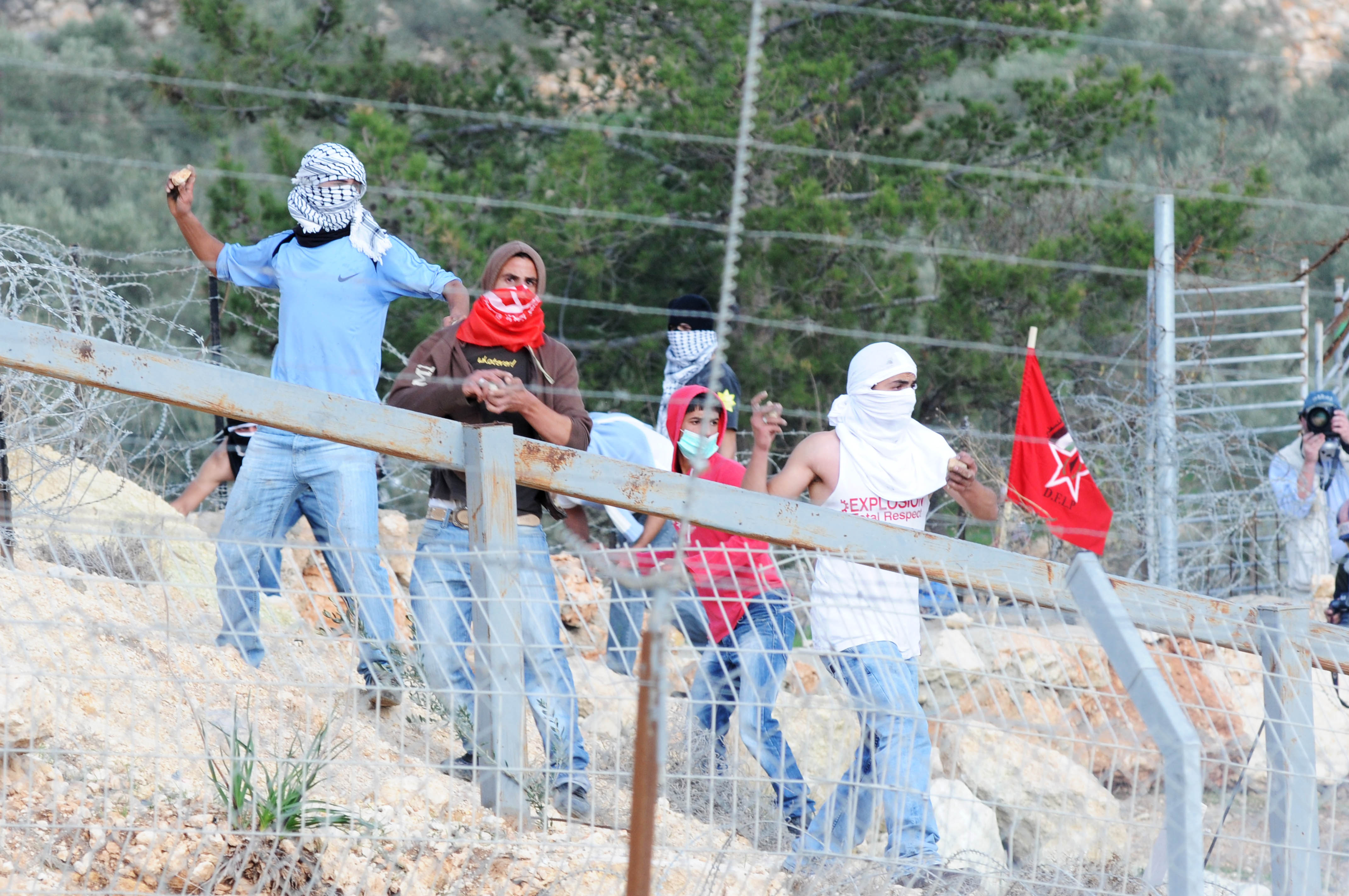 January 7, 2011. 'Undercover Israeli combatants threw stones at IDF soldiers in West Bank' Testimony by commander of the Israeli Prison Service's elite 'Masada' unit sheds light on IDF methods in countering demonstrations against barrier.